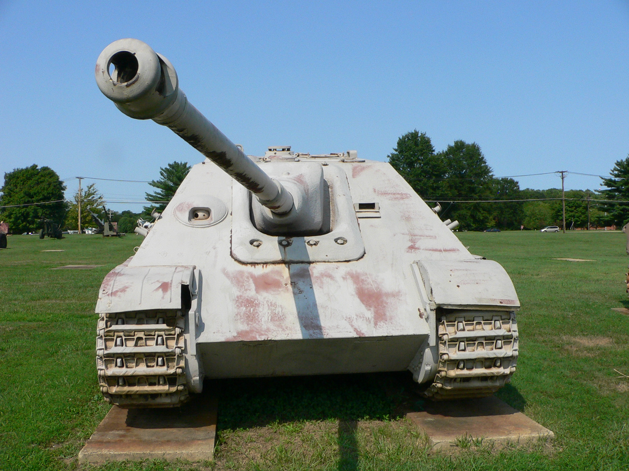 Picture taken by myself, Mark Pellegrini, at the United States Army Ordnance Museum (Aberdeen Proving Ground, MD) on June 12, 2007.